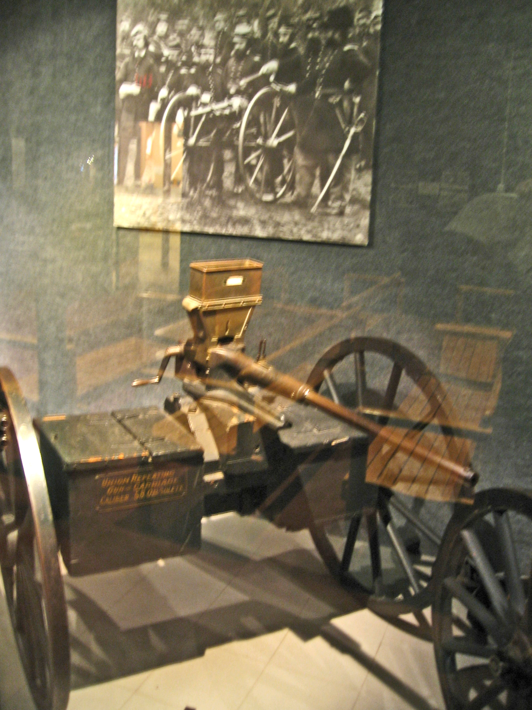 Ager Rapid-Fire "Coffee Mill" Gun. Manufactured by Woodward & Cox, cal.: .58”, 120 rpm